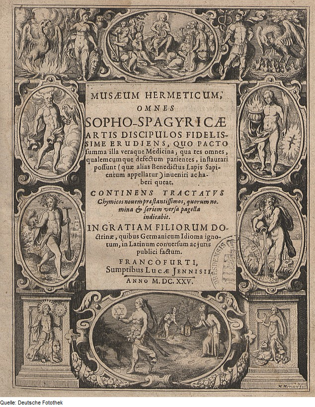 Original image description from the Deutsche Fotothek Theosophie & Alchemie